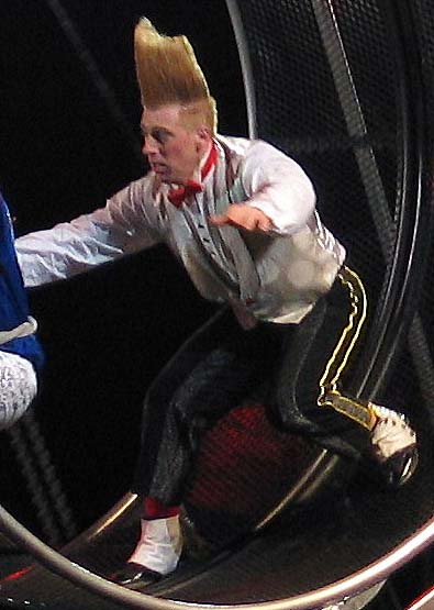 Bello